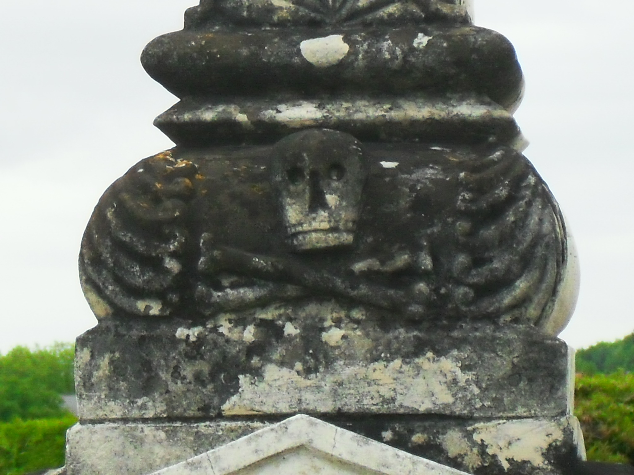 The symbol of the Golgotha (Place of the Skull) in the cross of Mursko Središče Cemetery (1, 2)